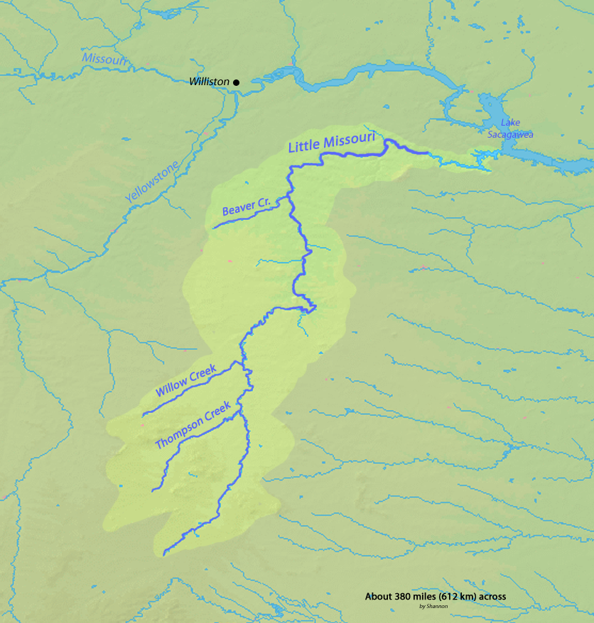 Map of the Little Missouri River watershed in Wyoming, Montana and North Dakota in the north-central USA, that drains to the Missouri River